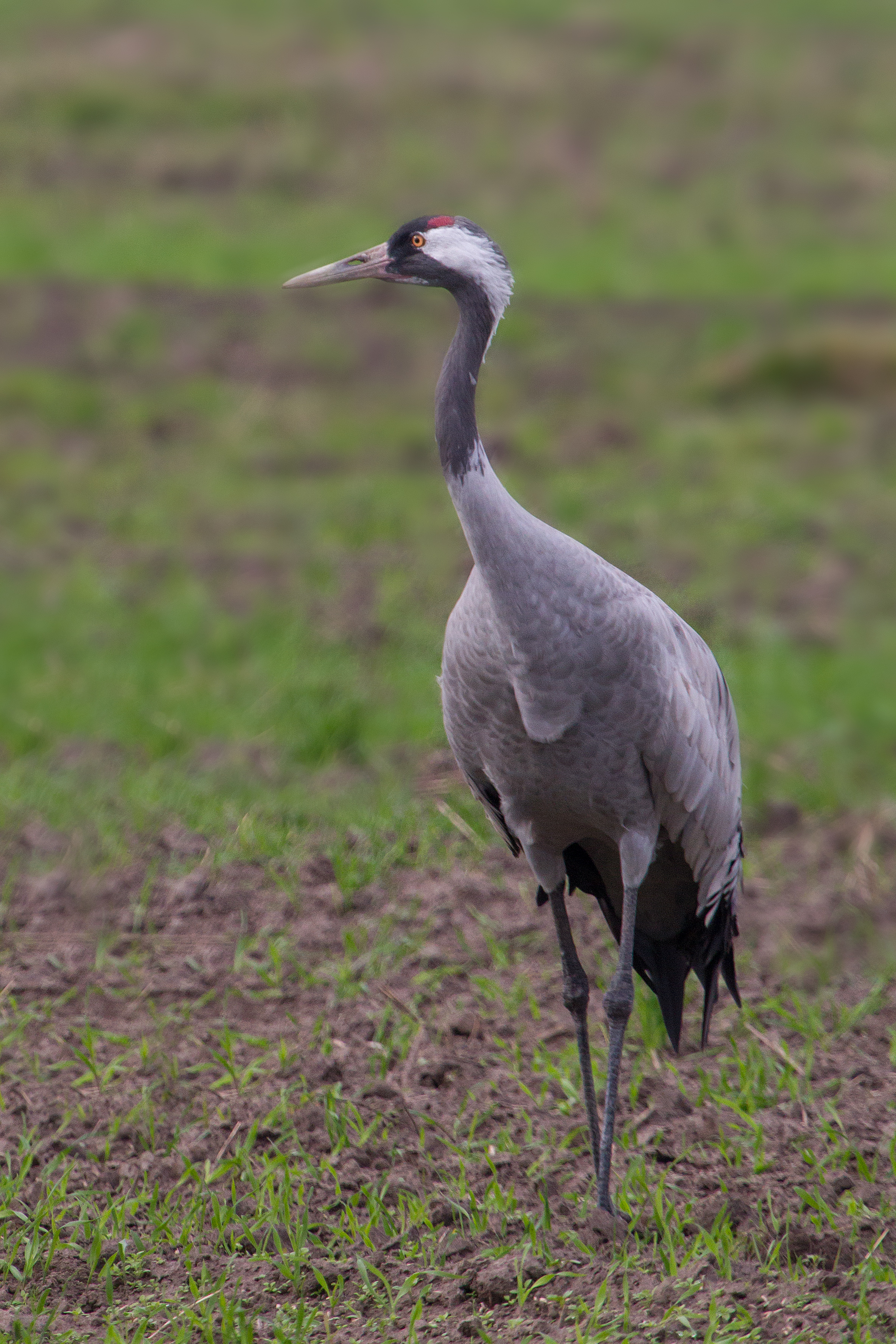 Common Crane